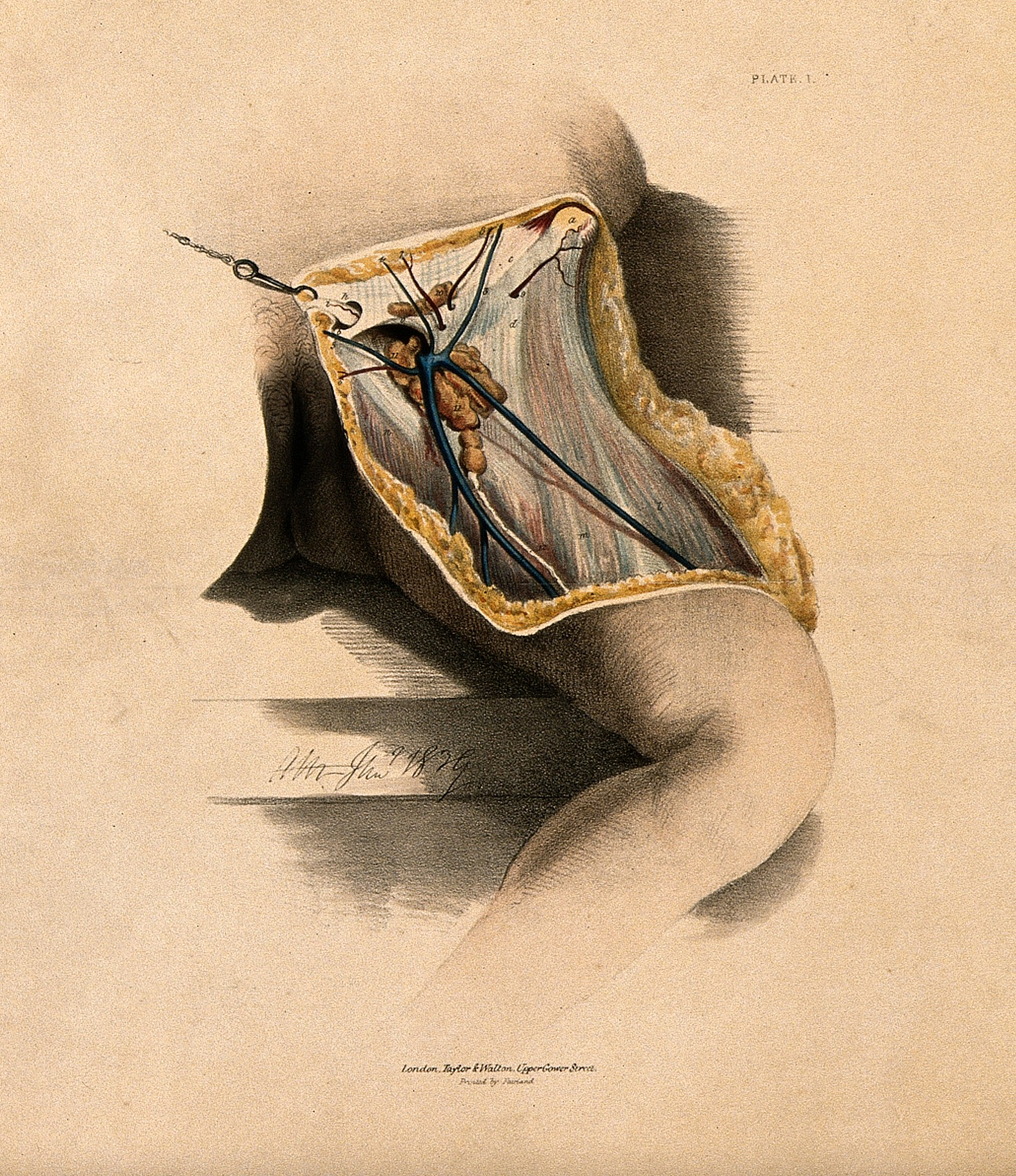 A dissection of the groin, showing the fascia, blood-vessels and lymphatic vessels. Coloured lithograph. Iconographic Collections Keywords: Andrew Morton